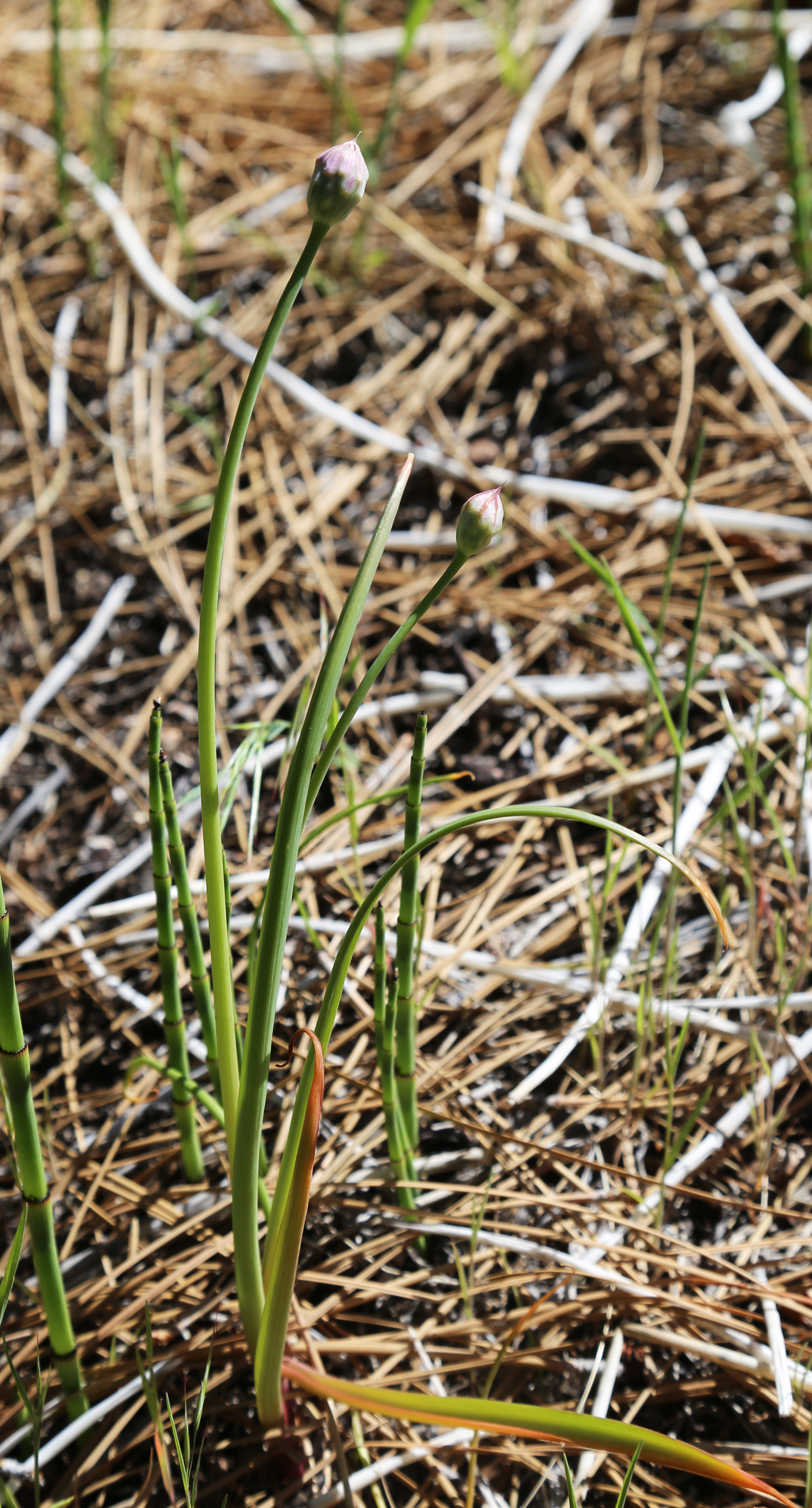 Twincrest, or aspen, onion (Allium bisceptrum) emerging plants with leaves and buds. At 1,920 m (6,300 ft) next to bike path just west of Lower Rock Creek. Mono County, California, in the Eastern Sierra Nevada.